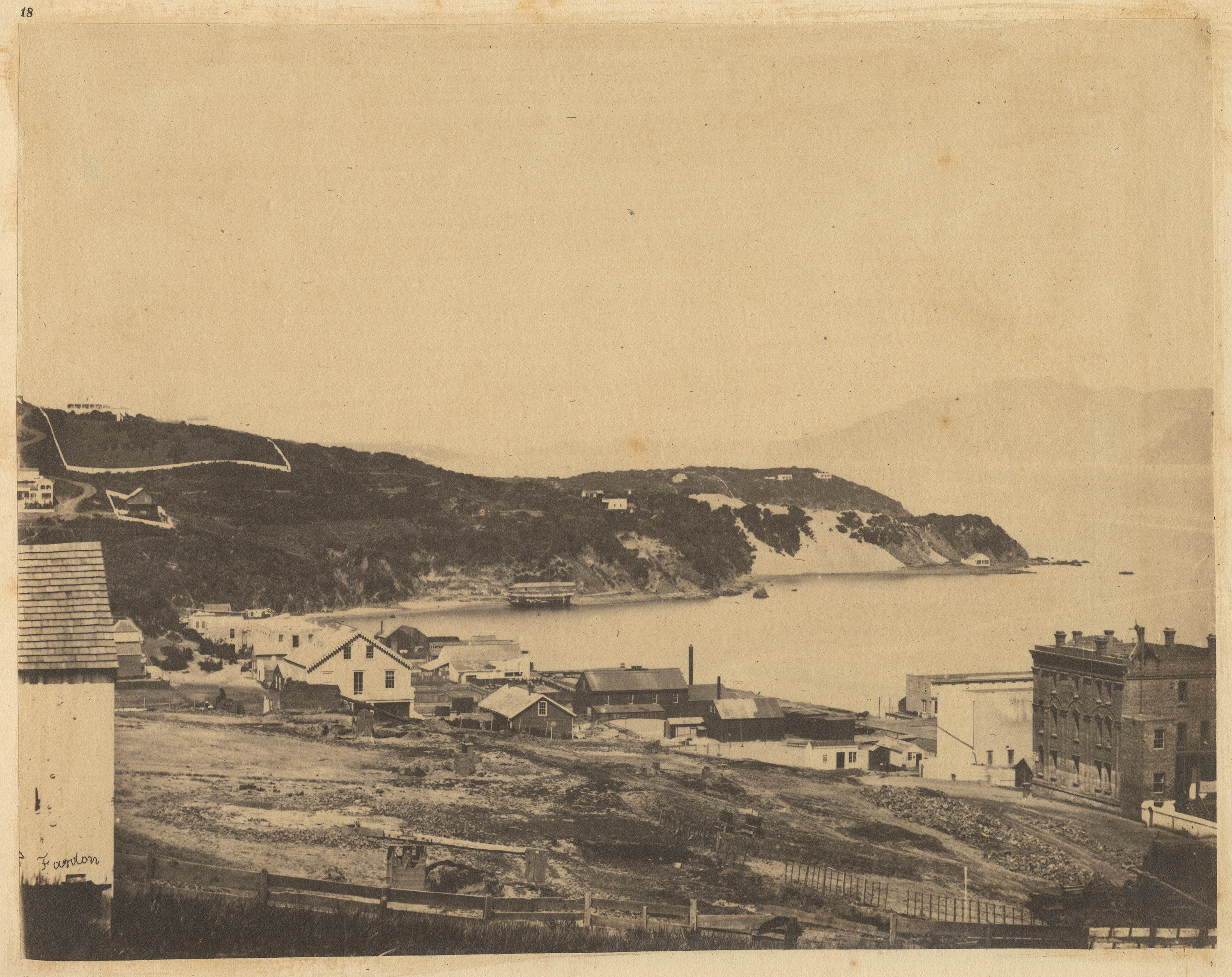 Title: View of North Beach, from Telegraph Hill. Creator: G. R. Fardon Date: 1856 Part Of: San Francisco album: photographs of the most beautiful views and public buildings of San Francisco Page Number: p. 18 Place: San Francisco, California Physical Description: 1 photographic print: salted paper; 16 x 21 cm. on 22 x 27 cm mount File: vault_folio_f869_s3f27_18_opt.jpg Rights: Please cite Southern Methodist University, Central University Libraries, DeGolyer Library when using this image file. A high-quality version of this file may be obtained for a fee by contacting . For more information and to view the image in high resolution, see: View U.S. West: Photographs, Manuscripts, and Imprints